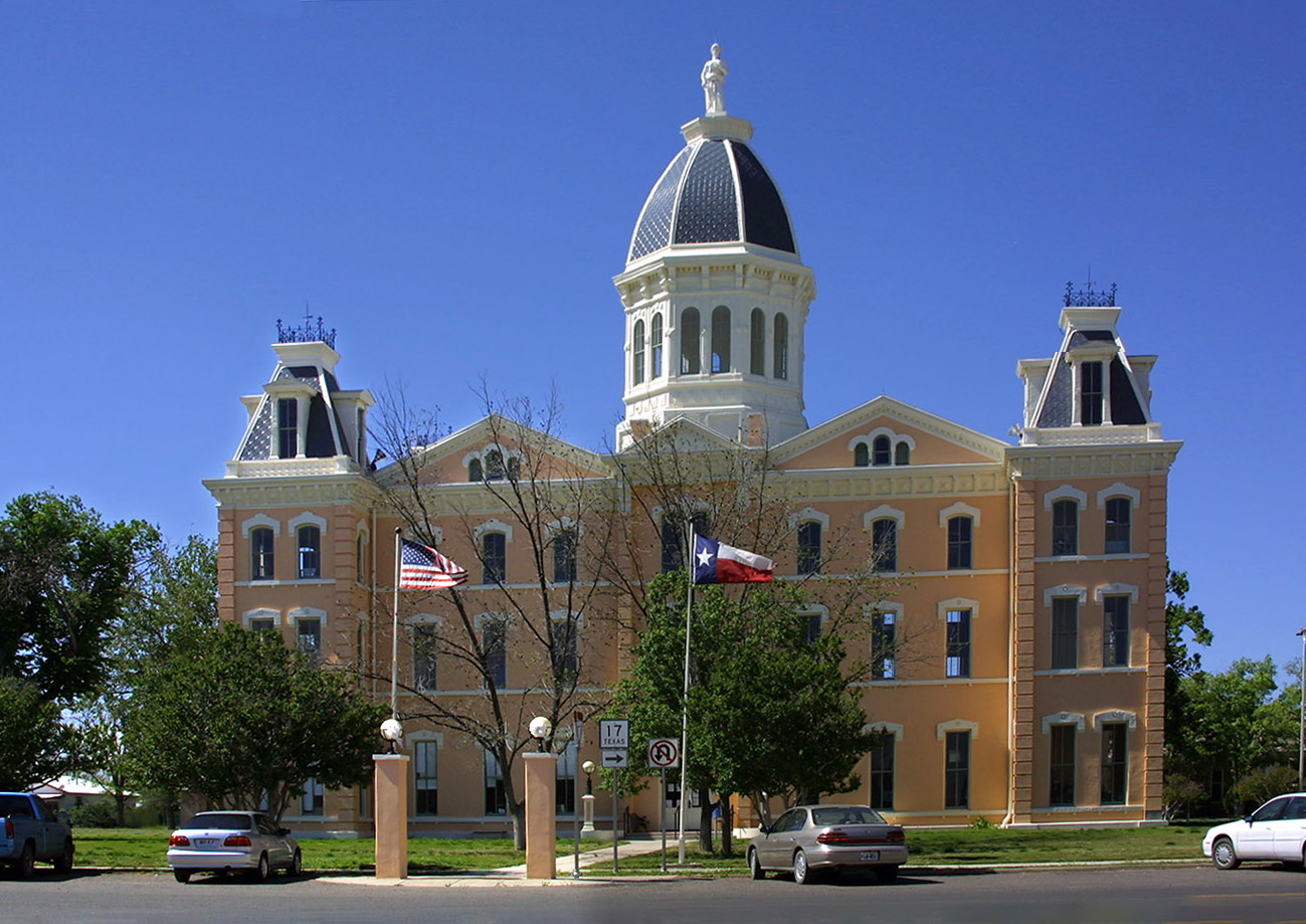 The Presidio County Courthouse in Marfa, Texas taken by myself in April 2004. Recorded Texas Historic Landmark - 1964